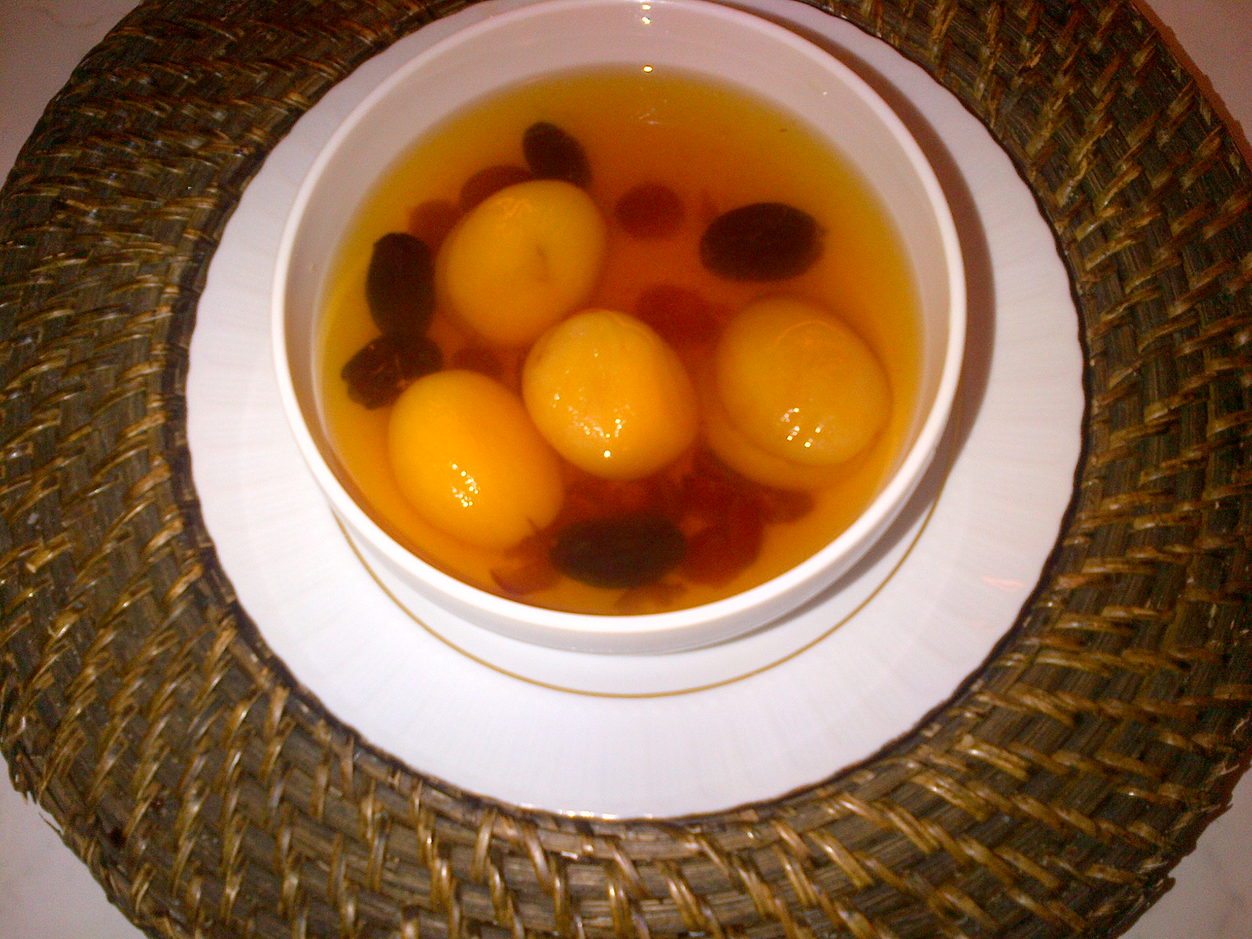 Apricot, plum and raisin "hoşaf" from the Turkish cuisine.